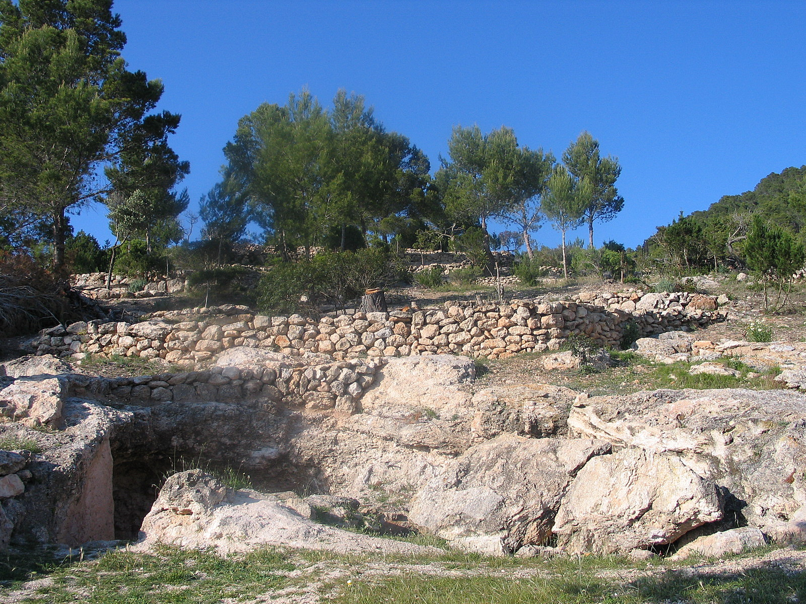 grave yard of the Phoenicians at Cala d'Hort (isle of Ibiza)